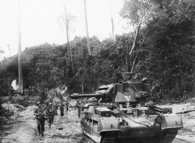 AWM photo caption: Borneo: Balikpapan Area. Members of A Company, 2/10th Australian Infantry Battalion, behind a Matilda 'frog' flamethrower tank from 2/1 Armoured Reconnaissance Regiment of 4th Australian Armoured Brigade Group, moving from the Tank Plateau feature towards the town area during Operation Oboe 2.